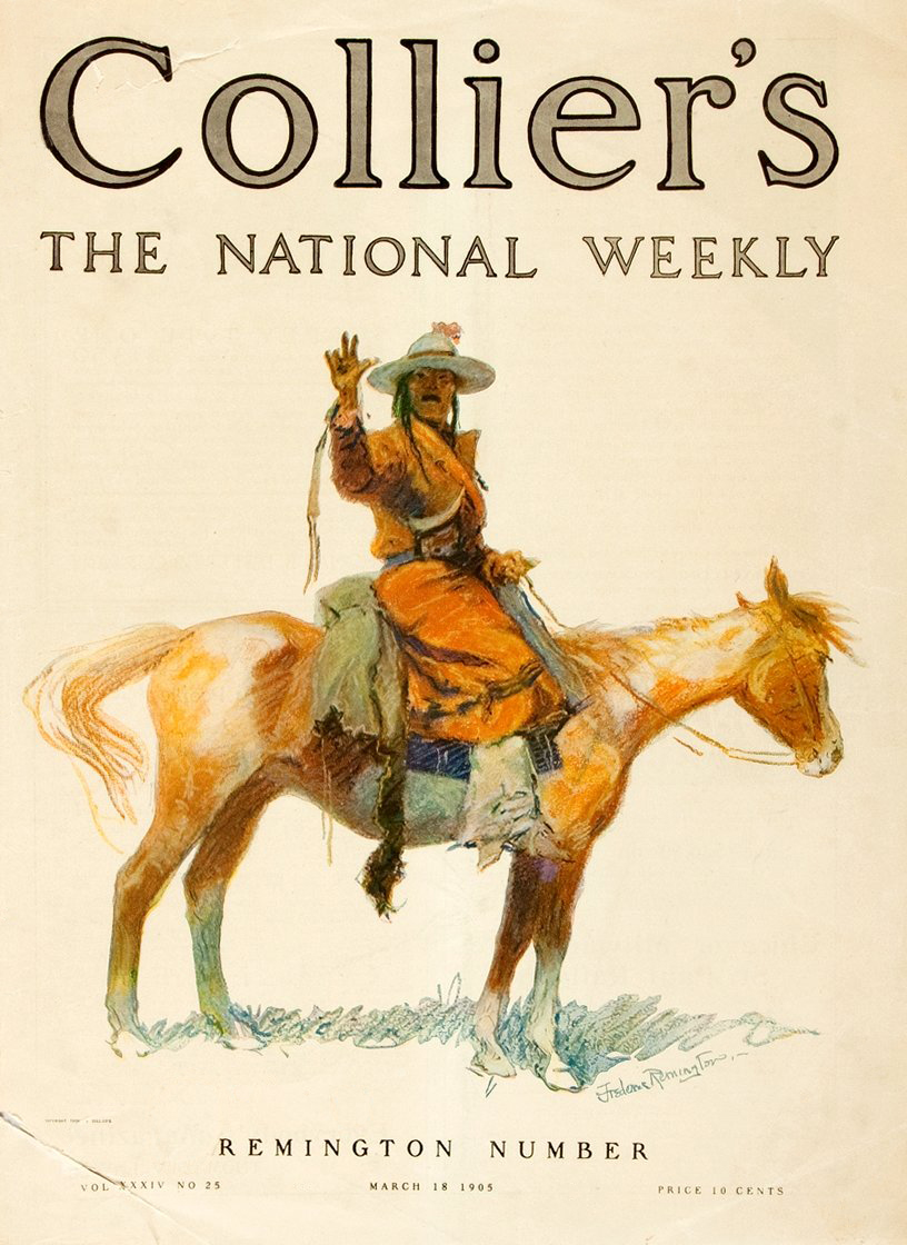 Cover of Collier's magazine with art by Frederic Remington